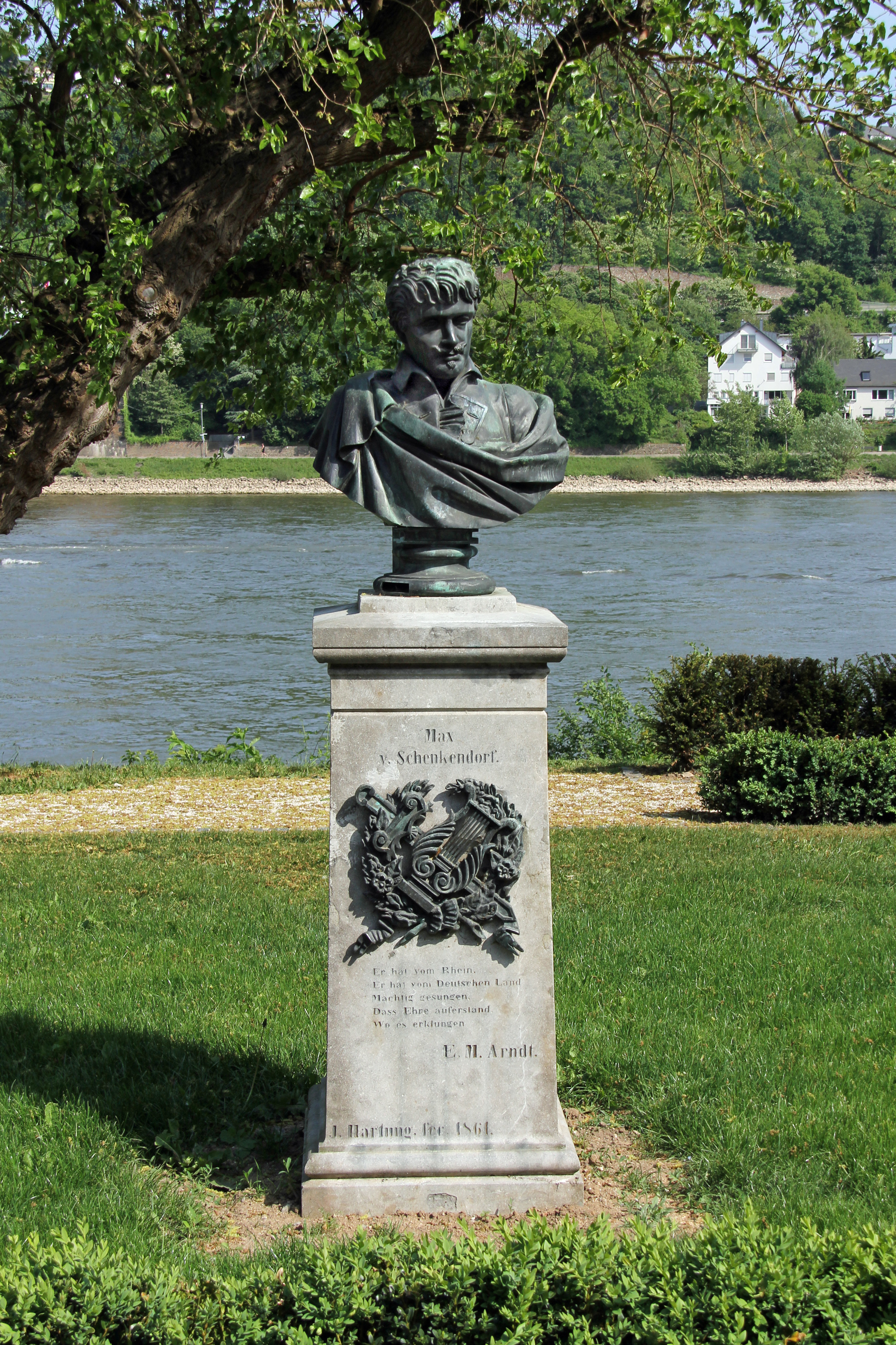 Rhine park in Koblenz